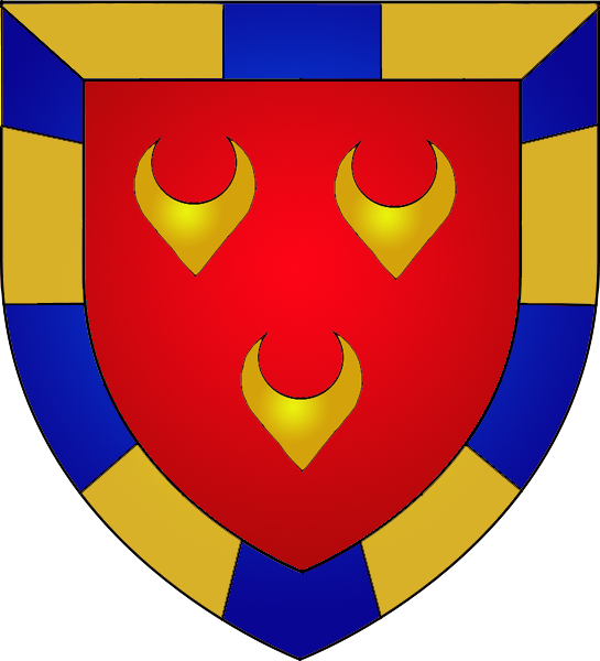 Coat of arms of the municipality of Roeser, Luxembourg